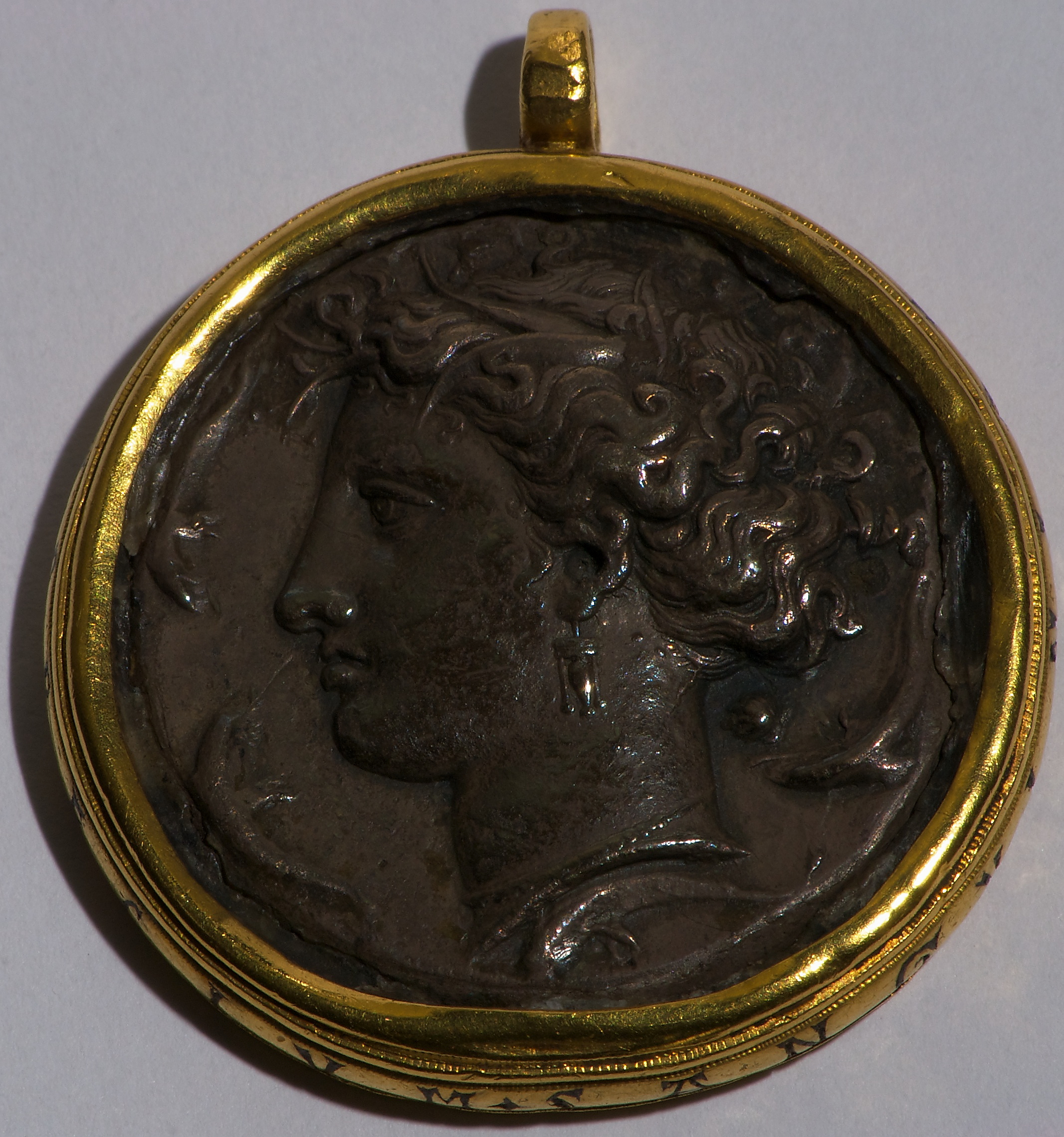 Archaeological Object. A pendant made from a silver coin, the dekadrachm (ten-drachma) of Syracuse, set in a gold mount with a suspension loop. The front face shows a female head surrounded by four dolphins, possibly Arethusa or Persephone. The reverse shows a chariot pulled by four horses and a charioteer. The goddess of victory Nike flies overhead to crown the charioteers head with a wreath. This coin is reputed to be one of the so-called thirty pieces of silver paid to Judas for betraying Christ. This belief comes from the Middle Ages.